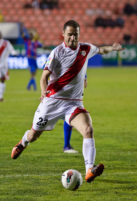 Montenegrin football plyer Andrija Delibašić as playing for Rayo Vallecano